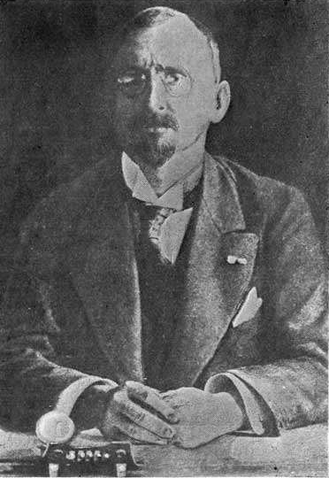 Photo of Belarusian historian and politician Alaksandar Ćvikevič